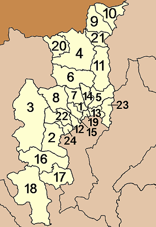 Map of Chiang Mai Province, Thailand, with the districts (Amphoe) numbered. Mueang Chiang Mai (อำเภอเมืองเชียงใหม่) Chom Thong (อำเภอจอมทอง) Mae Chaem (อำเภอแม่แจ่ม) Chiang Dao (อำเภอเชียงดาว) Doi Saket (อำเภอดอยสะเก็ด) Mae Taeng (อำเภอแม่แตง) Mae Rim (อำเภอแม่ริม) Samoeng (อำเภอสะเมิง) Fang (อำเภอฝาง) Mae Ai (อำเภอแม่อาย) Phrao (อำเภอพร้าว) San Pa Tong (อำเภอสันป่าตอง) San Kamphaeng (อำเภอสันกำแพง) San Sai (อำเภอสันทราย) Hang Dong (อำเภอหางดง) Hot (อำเภอฮอต) Doi Tao (อำเภอดอยเต่า) Omkoi (อำเภออมก๋อย) Saraphi (อำเภอสารภี) Wiang Haeng (อำเภอเวียงแหง) Chai Prakan (อำเภอชัยปราการ) Mae Wang (อำเภอแม่วาง) Mae On (sub-district) (กิ่งอำเภอแม่ออน) Doi Lo (sub-district) (กิ่งอำเภอดอยหล่อ)